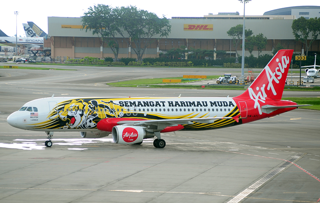 9M-AFI A320-216 of AirAsia at Singapore, Changi on December 6, 2012.